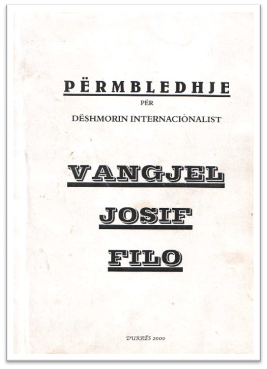 This is a book of the work of Vangjel Filo